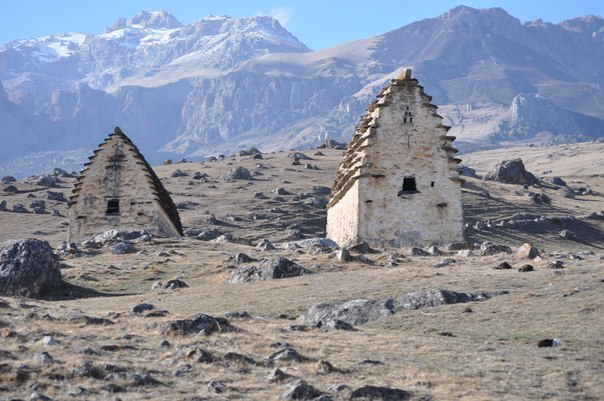 This image is related to the protected area of Russia number 1510047